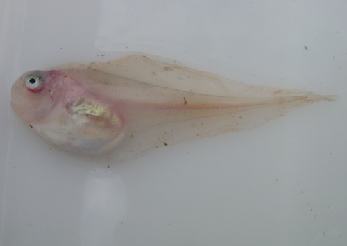 Unidentified snailfish (Careproctus sp.). Photo taken during the 2008 Beaufort Sea Survey.